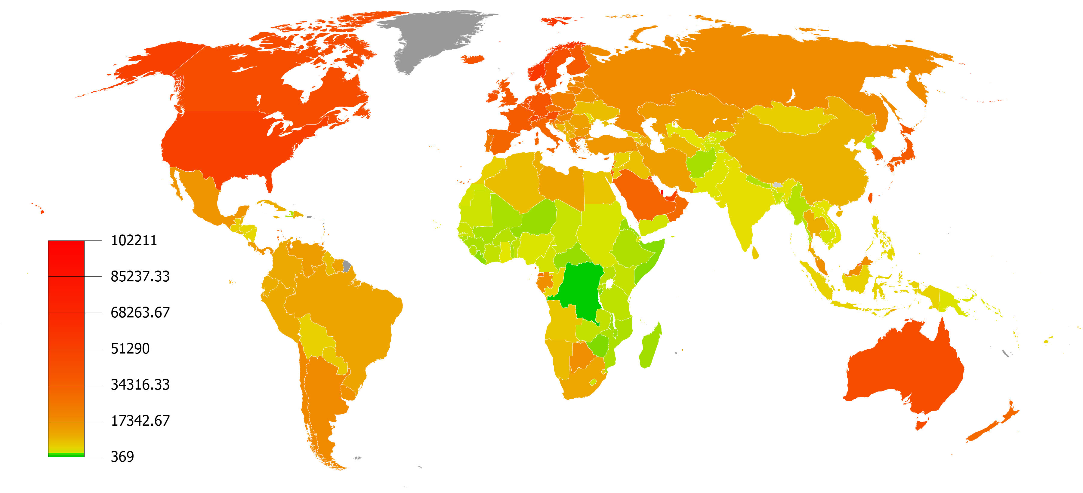 IMF data released in April 2013 for 2012. Figures for countries not included in IMF release were obtained by using CIA figures.